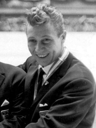 Torgeir Brandtzaeg, 1964 Olympics